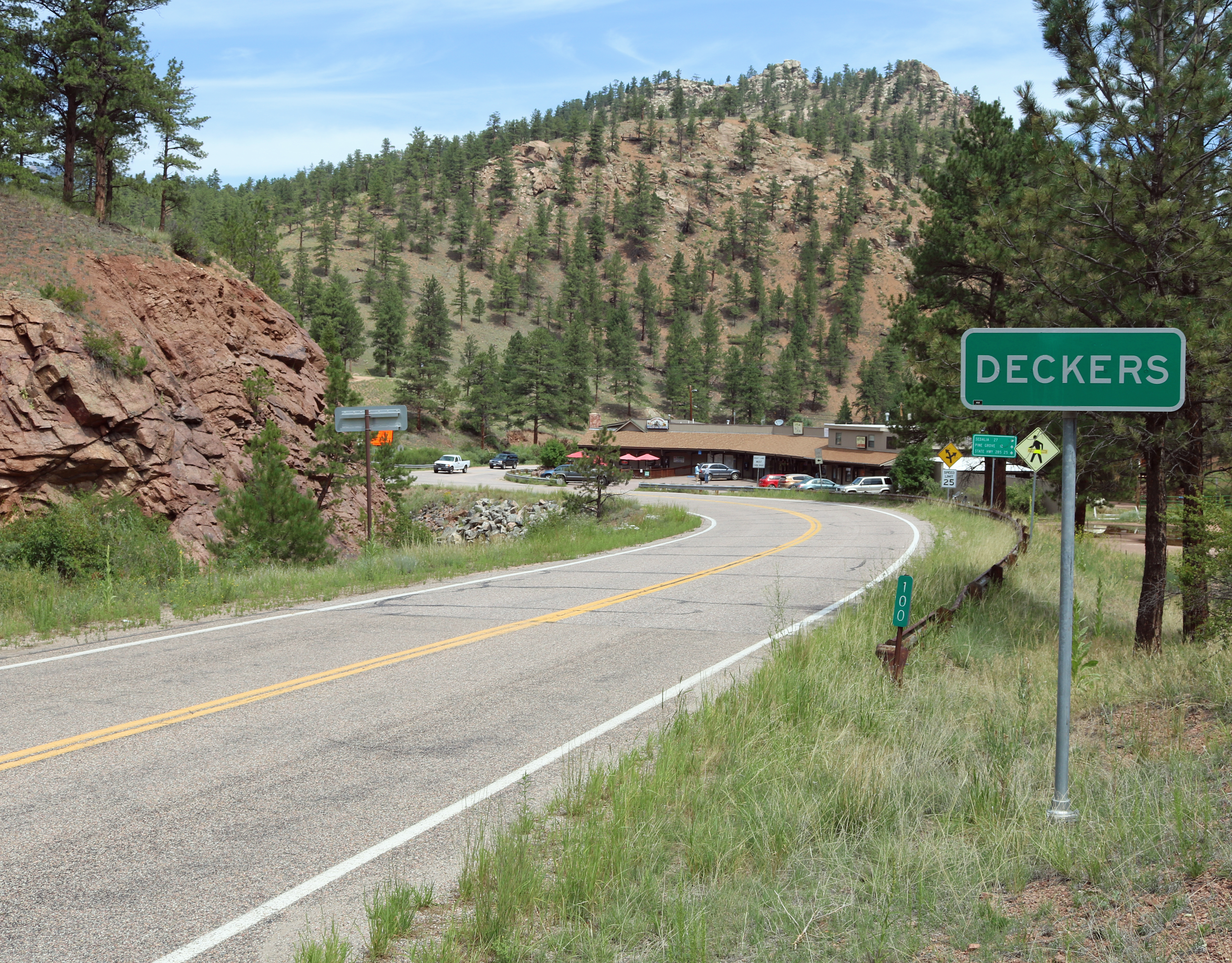 The community of Deckers, Colorado in Douglas County. The road is Colorado State Highway 67.